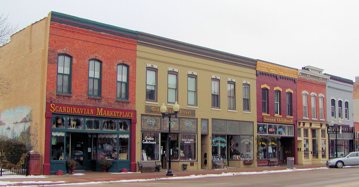 by William Wesen 2/24/2008; released to the public domain Category:Images of Minnesota - should be in Commons Category:Registered Historic Places in Minnesota